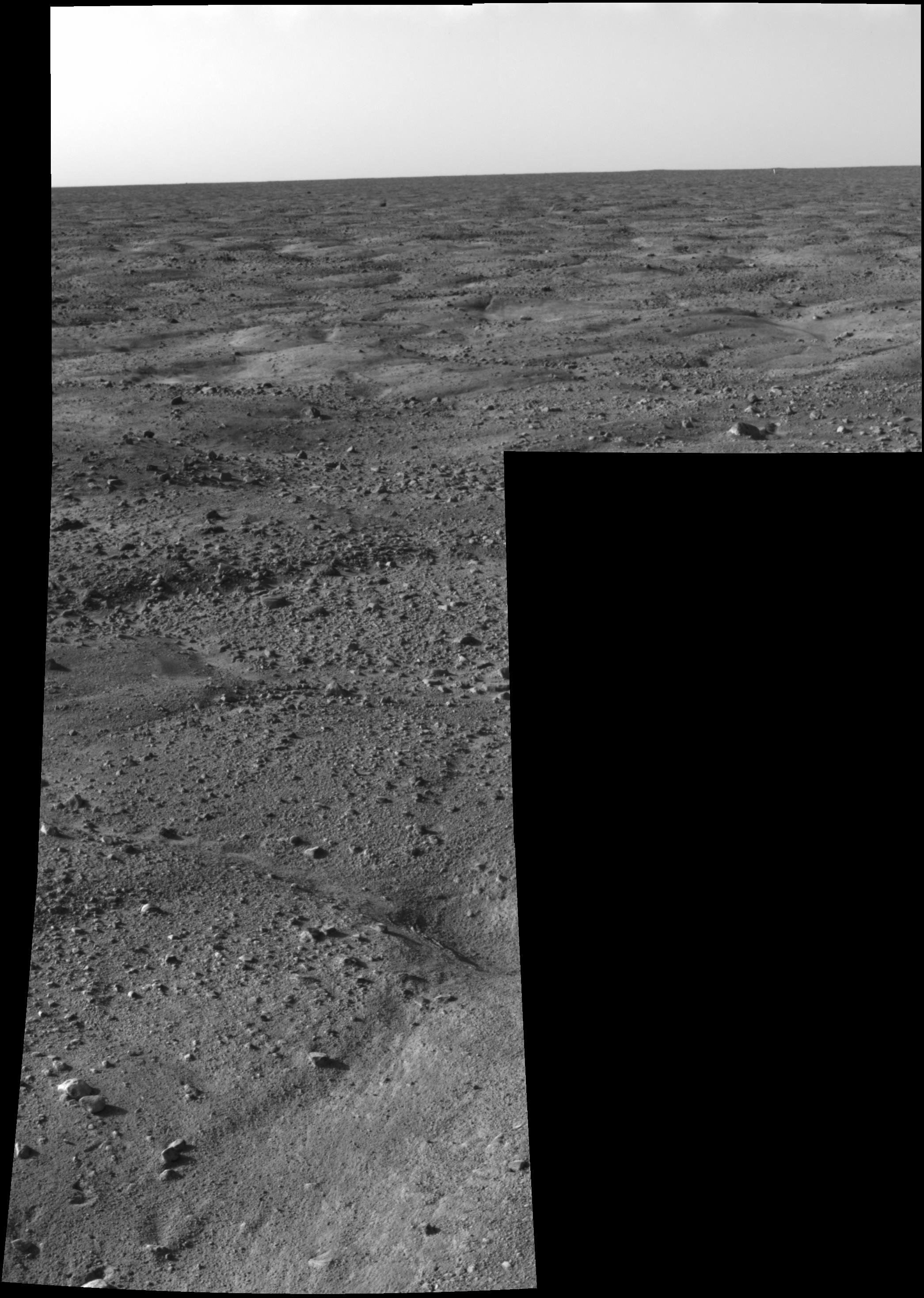 A landing-day stitched image from NASA's Phoenix Mars mission showing flat terrain stretching from the foreground to the horizon.